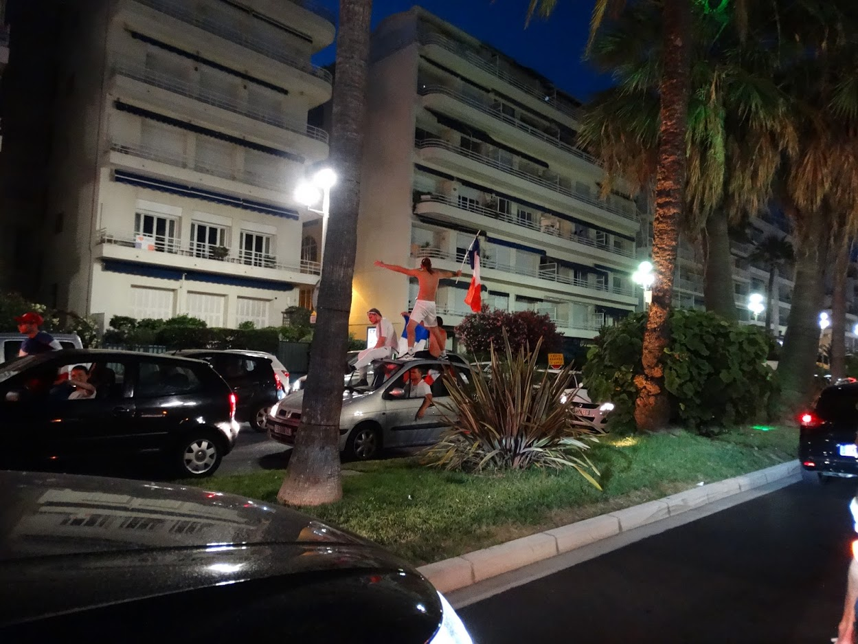 Nice celebrating the victory of France in 2018 football cup